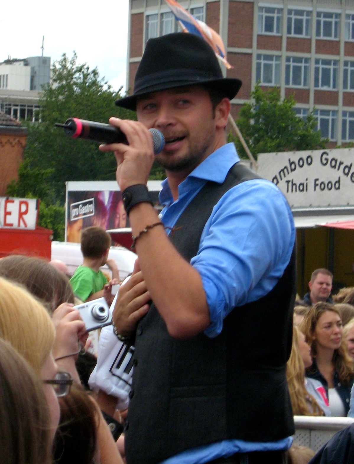 Jay Del Alma